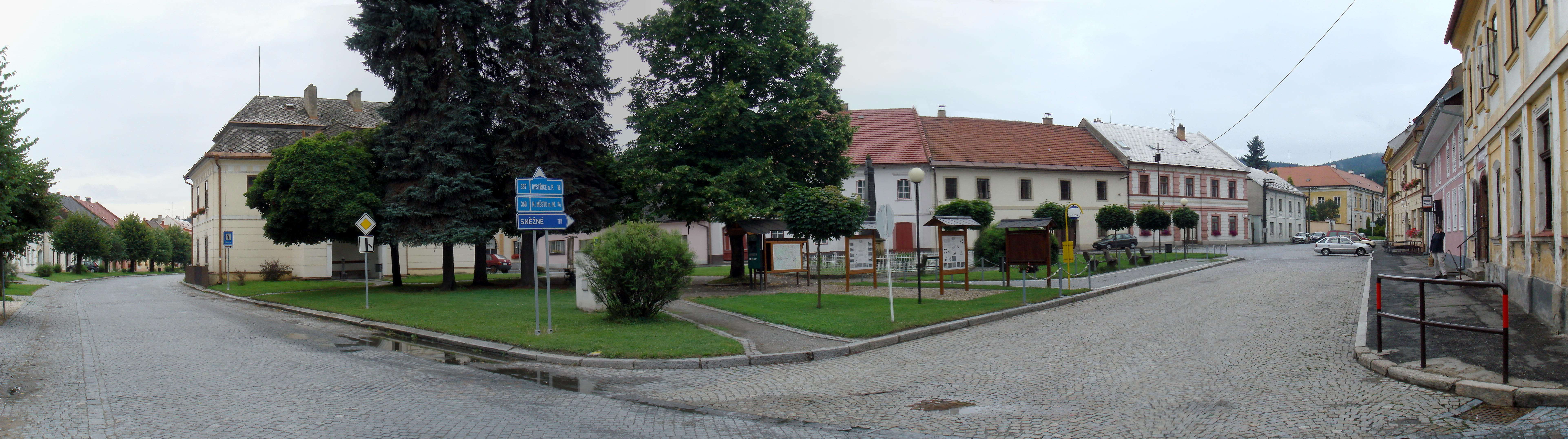 Jimramov in Czech Republic, Main Square Panorama Photograph by: Robert Paprstein Date: 05.Aug.2006